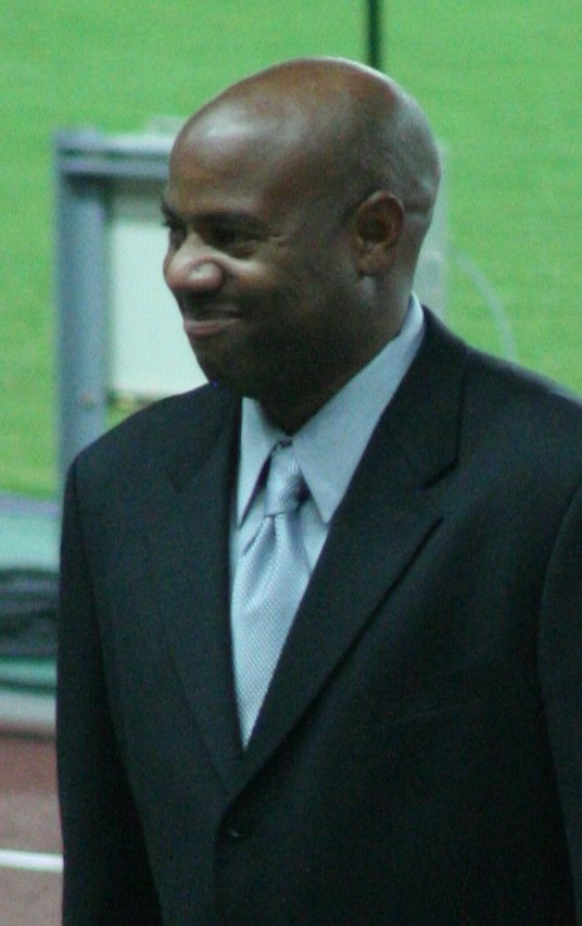 World Athletics Championships 2007 in Osaka - Mens long jump world record holder Mike Powell while assisting a victory ceremony at the 2007 championships